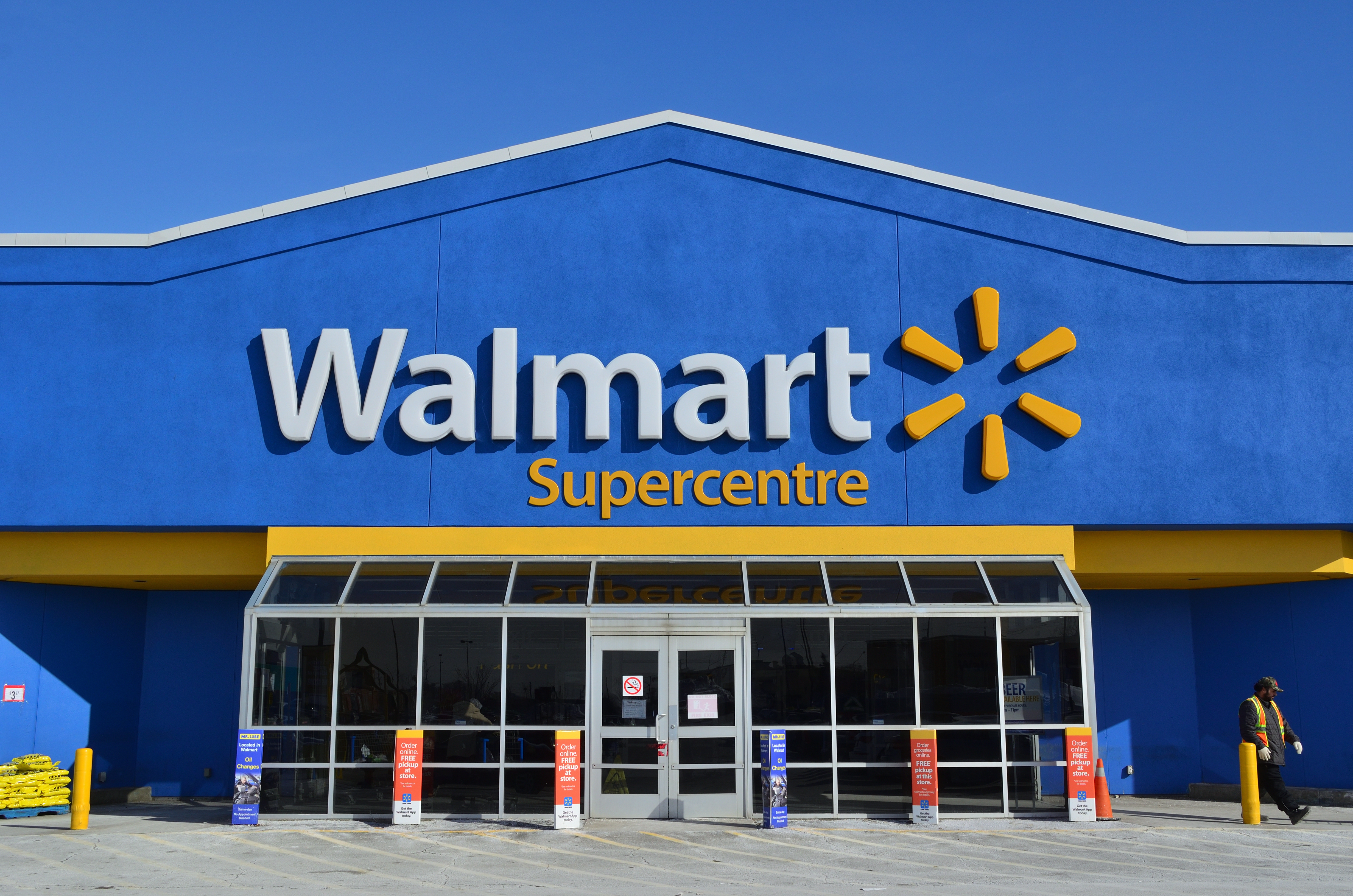 Walmart - Address: 1070 Major Mackenzie Drive East, Bayview & Major Mackenzie, Richmond Hill, Ontario